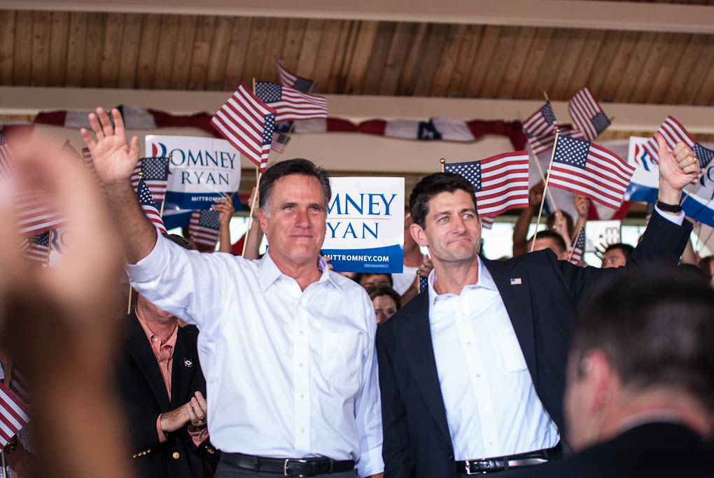 Mitt Romney and Paul Ryan wave at a campaign stop.